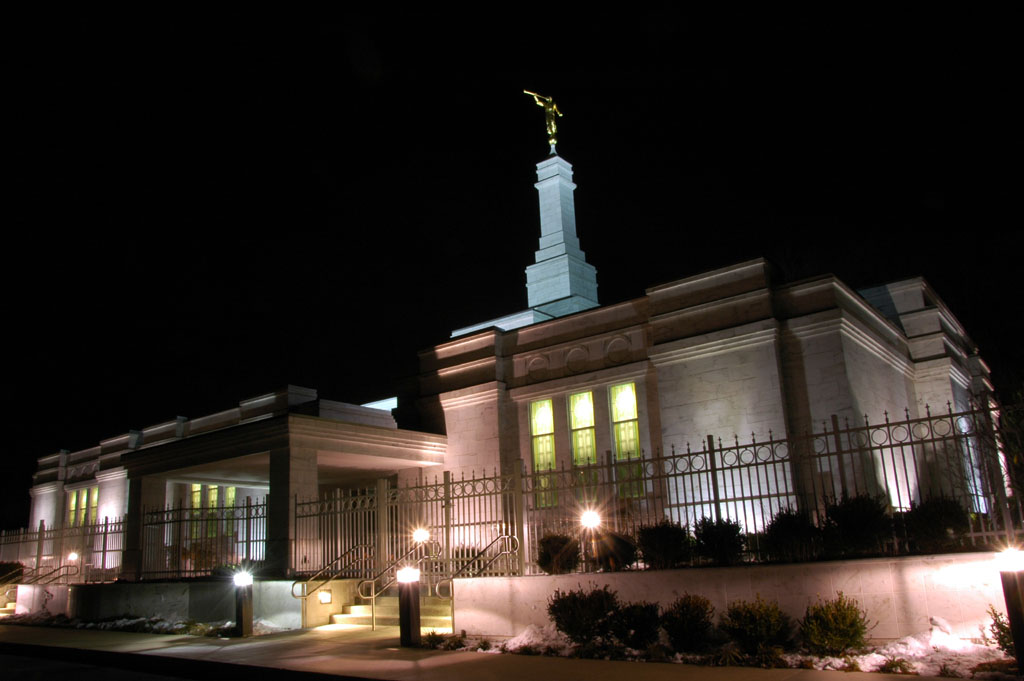 Project 365 #26, 01-26-2008...the Louisville Kentucky Temple of the Church of Jesus Christ of Latter-day Saints, just outside of Crestwood on Hwy. 22.